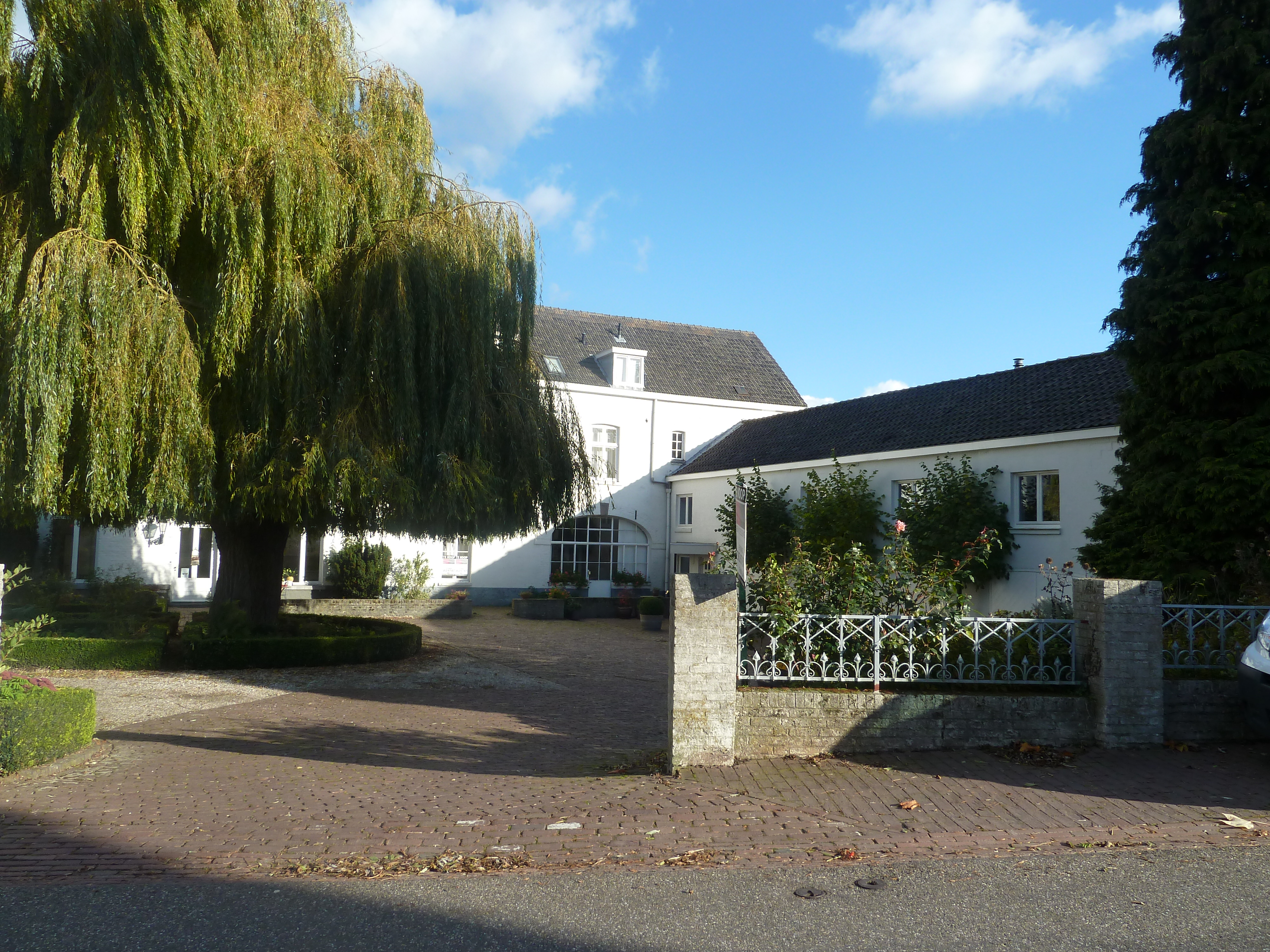 Sint Antoniusbank 42, Bemelen, Limburg, the Netherlands